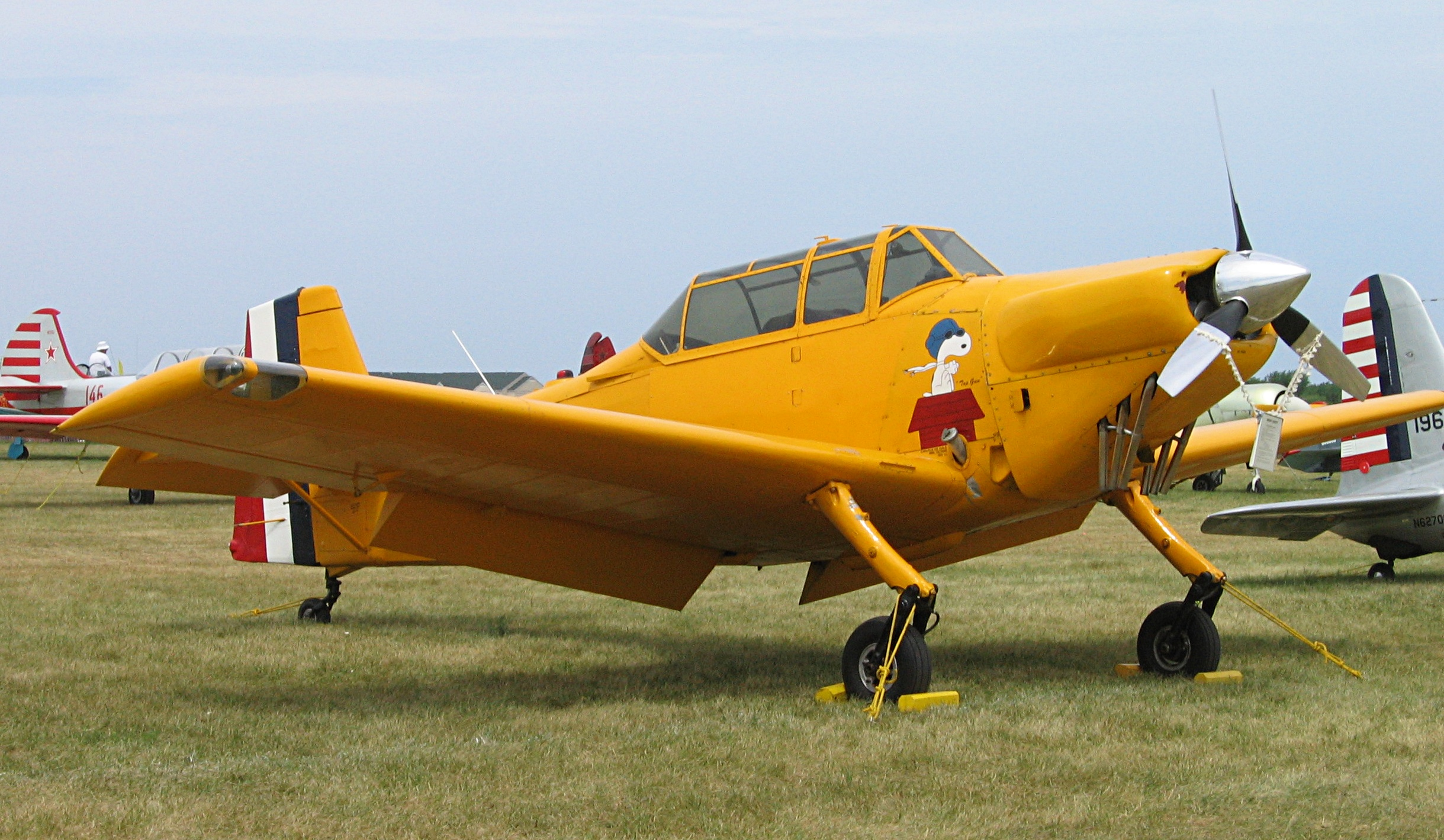 Nord 3202 at Oshkosh Air Show 2006.